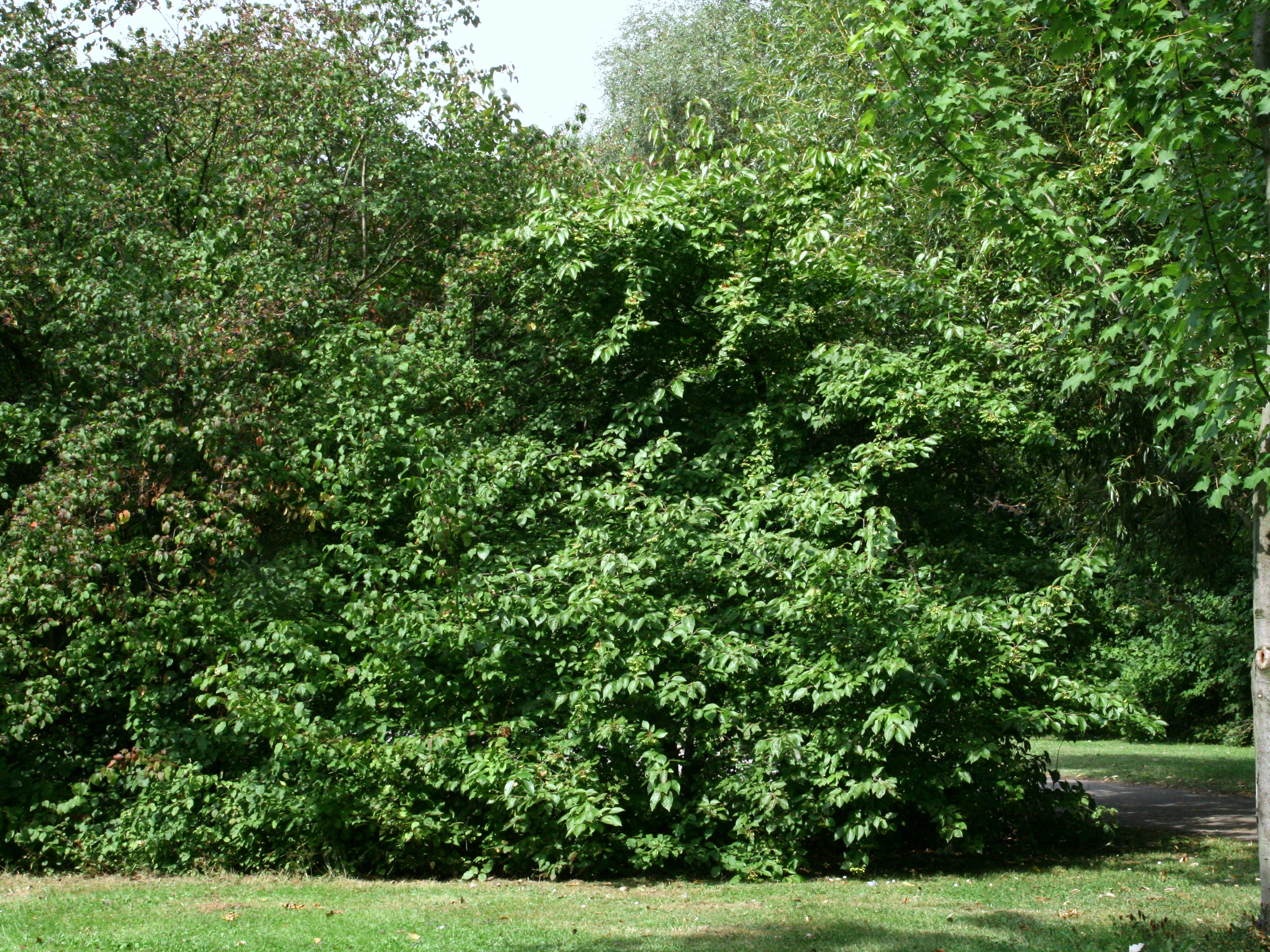 Viburnum prunifolium shrub, Dendrological Garden Pruhonice, Czech Republic